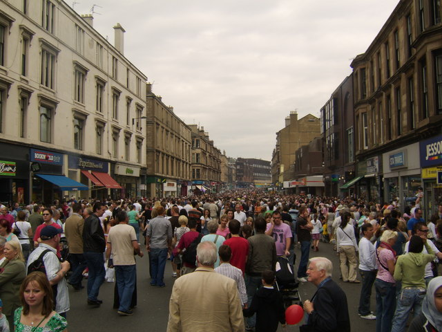 North Byres Road